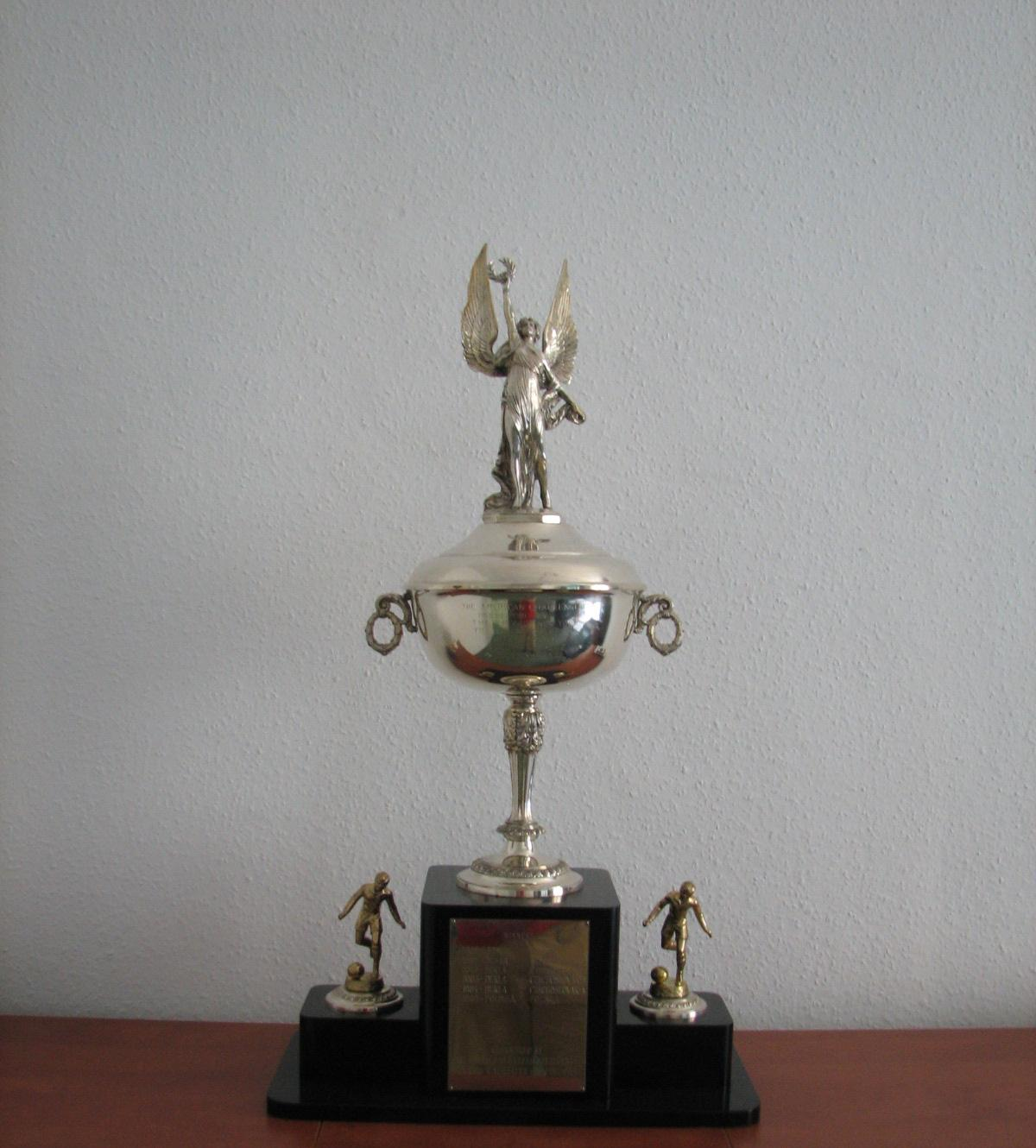 American Challenge Cup of the International Soccer League in Polonia Bytom office.